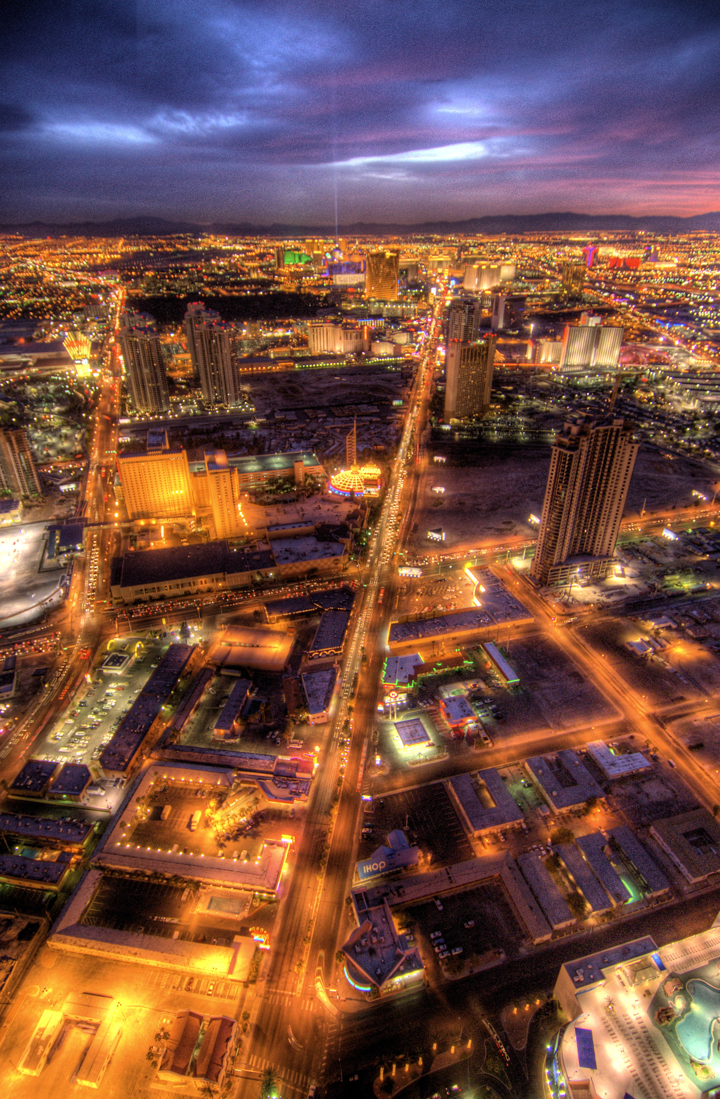 Night-time shot from the Stratosphere in Las Vegas. January 2007.